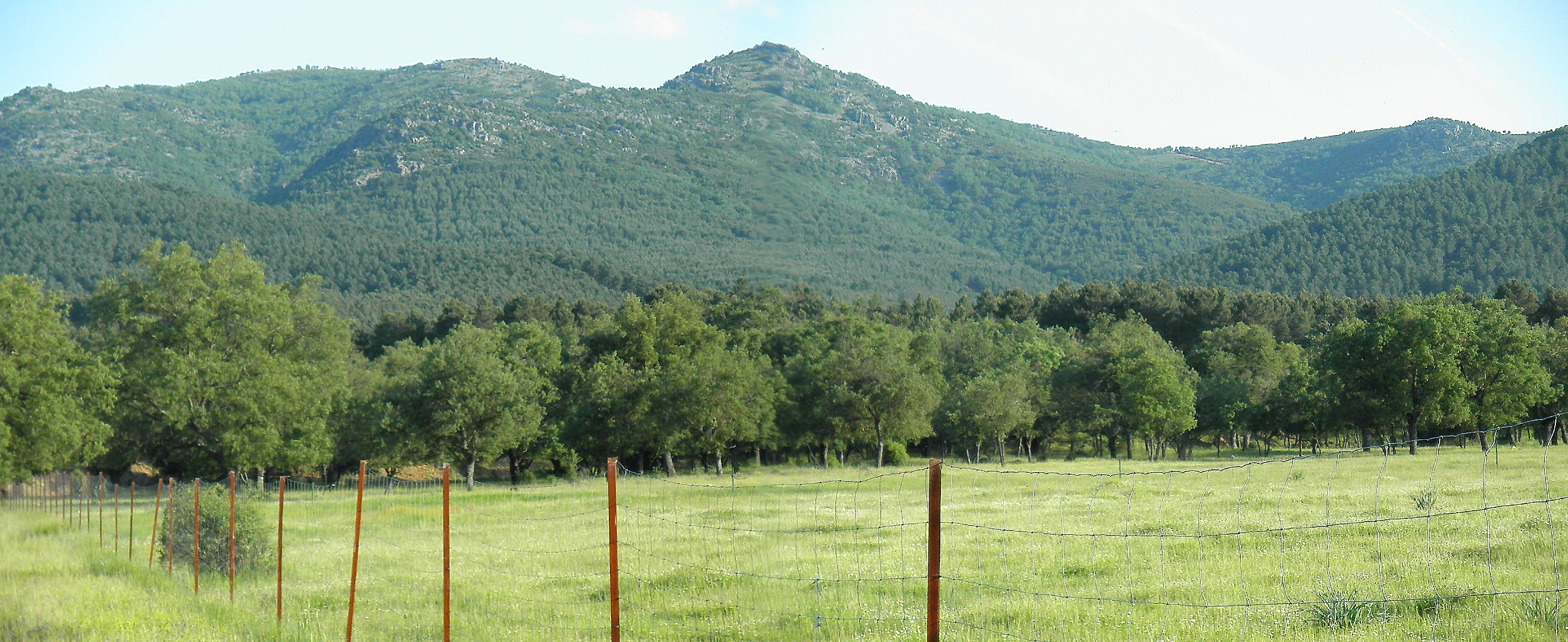 Panorama from Valderrepisa, Sierra Madrona, Spain